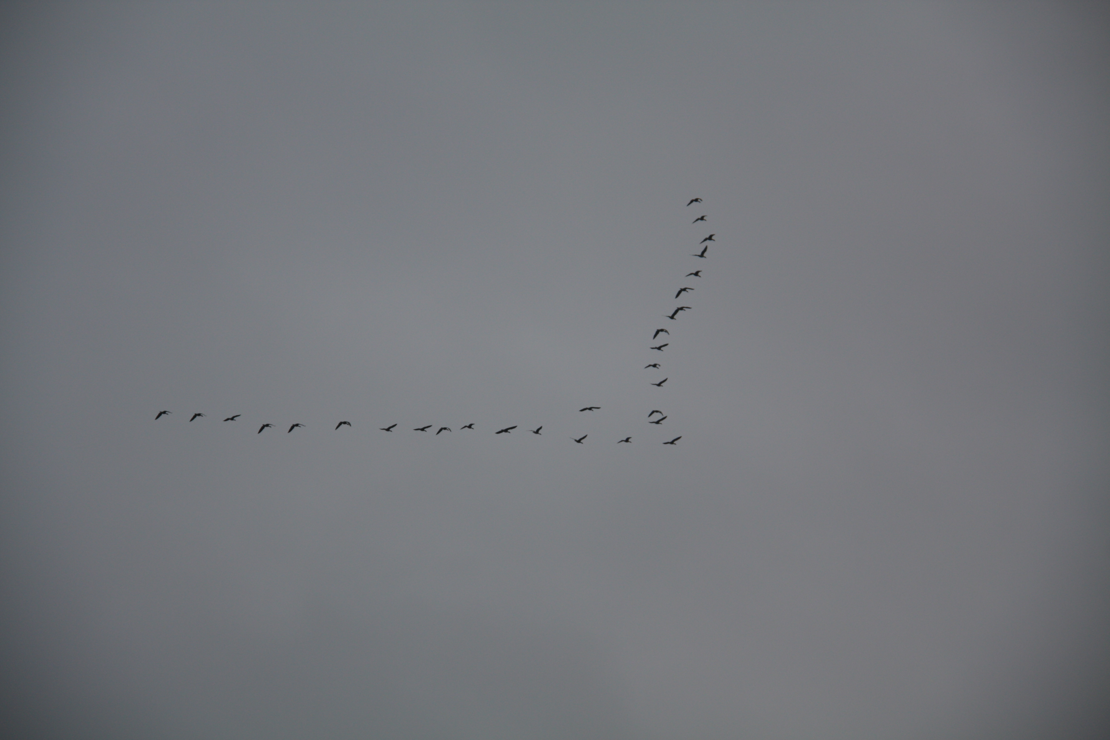 Goose